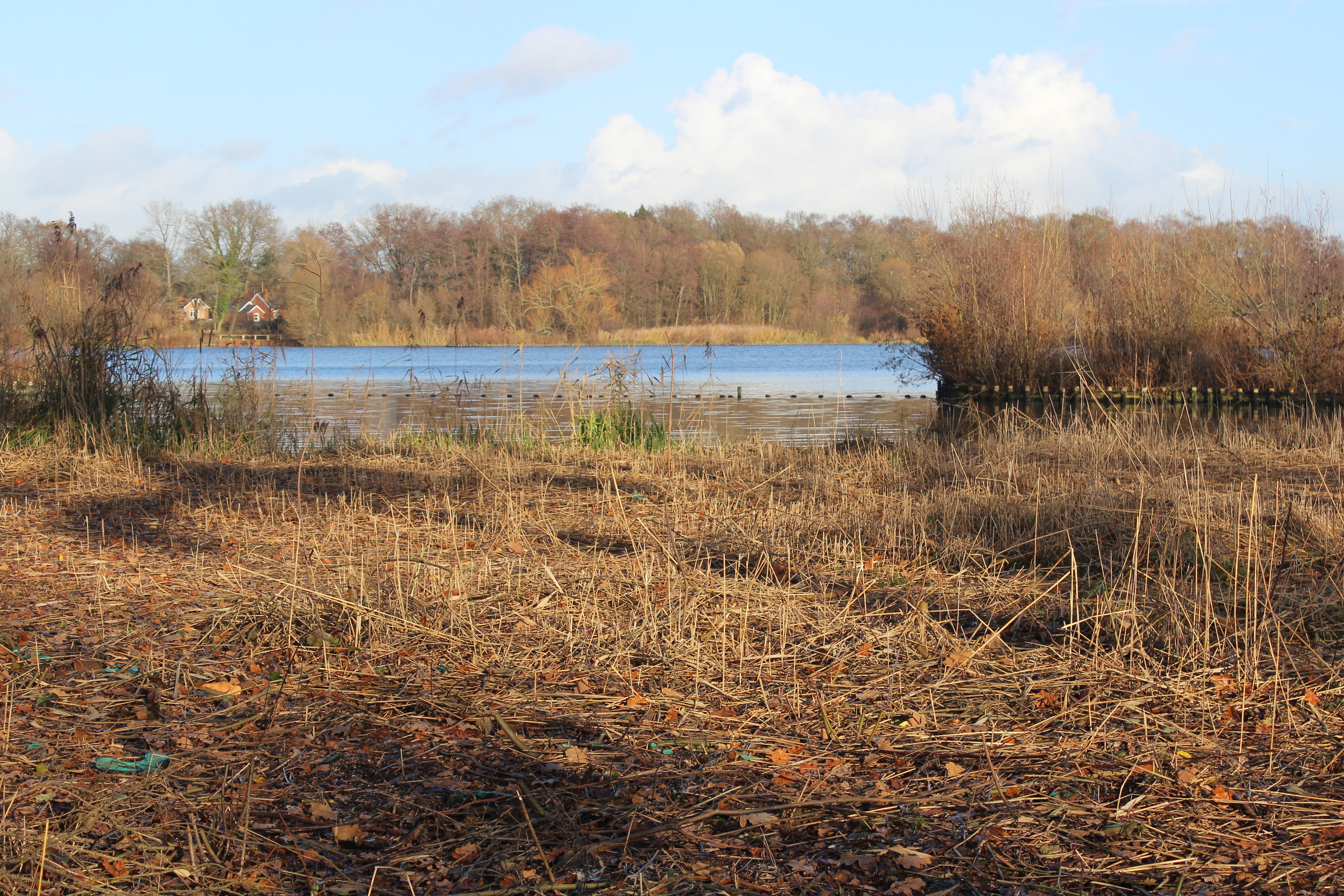 Alder and silver birch (Betula pendula) saplings have been cleared back as part of Fleet Pond's Autumn maintenance operation to allow reed beds to recolonise the shallow areas on the periphery of the pond. The areas of bright blue in the photograph's foreground is poison that has been applied to the stumps of cut-back saplings to prevent them from resprouting.